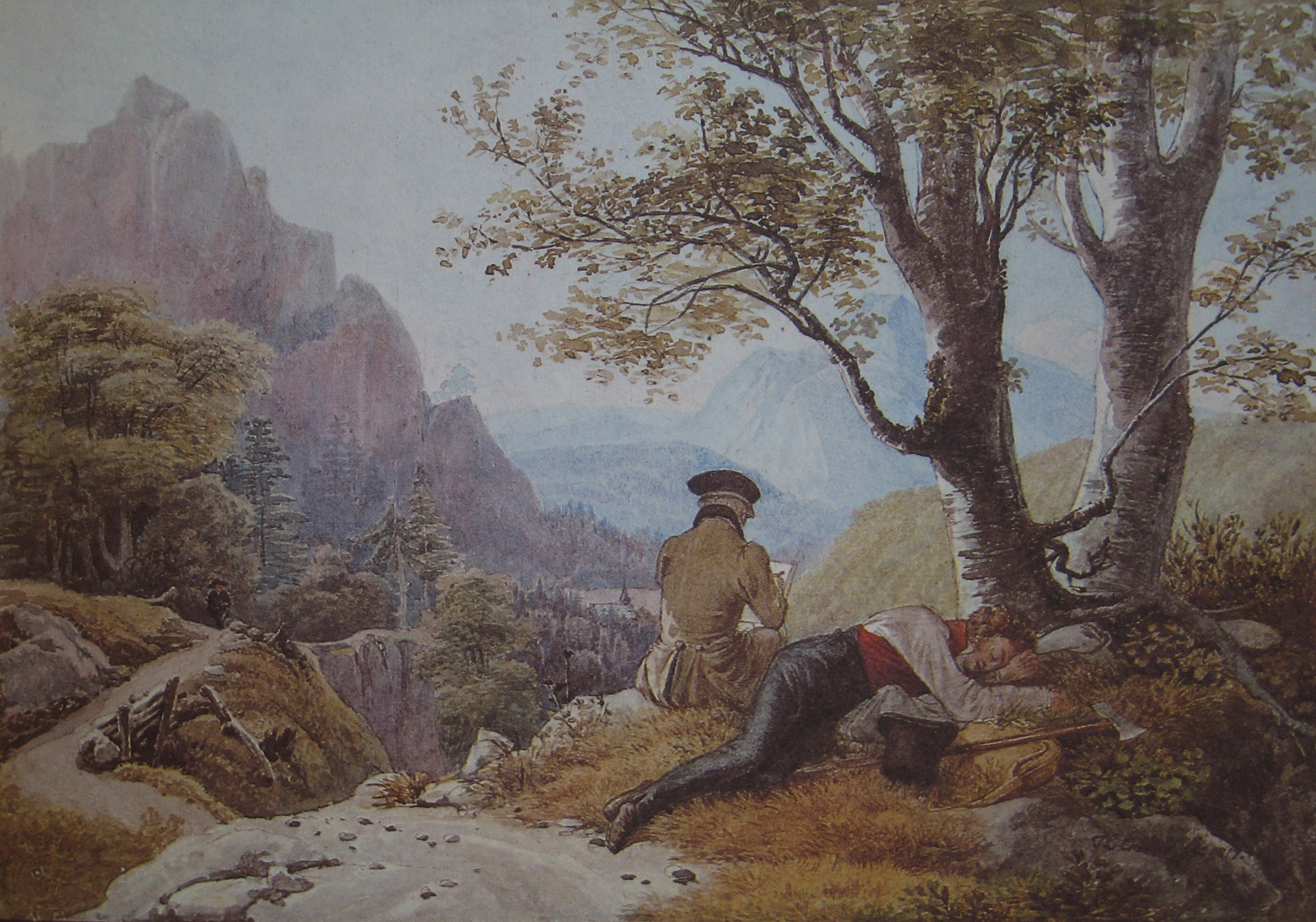 The artist and his friend and fellow artist, Johann Adam Klein, resting next to him.